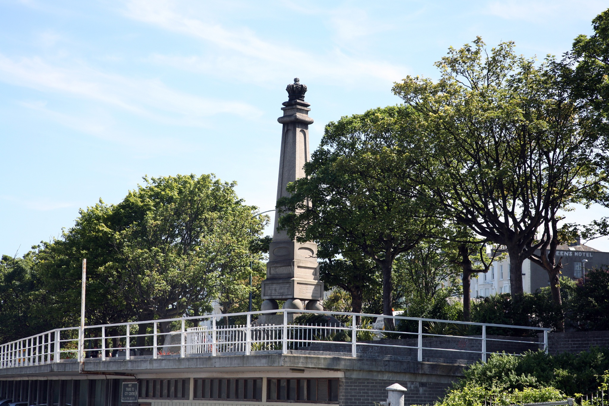 Dun Laoghaire is a very historical town. It used to be a small fishing village located on a rocky coast near Salthill, which was renowned for its production of salt. The original village, called Dunleary was situated near the beginning of the present West Pier. The present inner harbour, known as the coal harbour, dates from that time of the 18th Century. It consisted of seventy dwellings or cottages and was a very compact little village. All that remains of Dunleary is a row of 15 houses, including ‘Purty Kitchen’ and the Coal Harbour Pier. However, during that time, there was also another pier which was in the form of a curve. That pier is now buried beneath the railway line. There used to be a sandy cove running up to the site of the former ‘Fun Factory’, which was closed recently. Now, all that land has been reclaimed and built on. In Dunleary during the 18th Century, there used to be a famous coffeehouse which was very popular with tourists and people on day-trips from Dublin. The small harbour used to dry-out at low tide but it was considered an important departure point for England. Dun Laoghaire is still an important port, however the present journey time of 1½ hours does not compare to the 22 hours then!